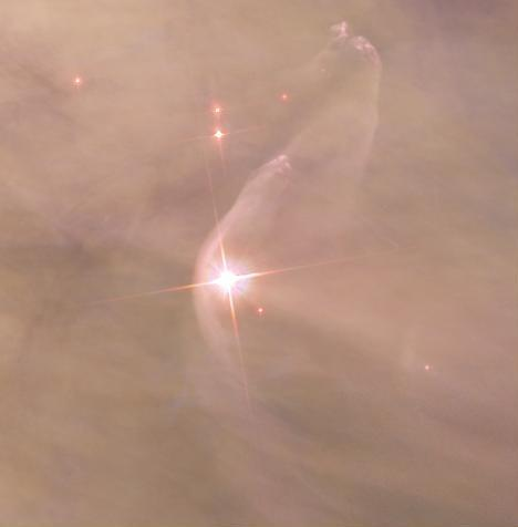 Example of a bow shock from a Hubble Telescope image of Orion Nebula.